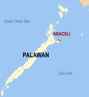 Map of Palawan showing the location of Araceli